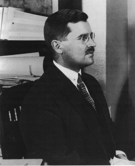 Photograph of the Finnish journalist and teacher Hillari Johannes Viherjuuri a.k.a. Veli Giovanni (1889–1949).